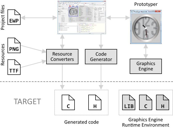 Embedded Wizard Platform Package